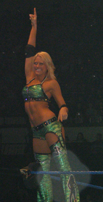 Kelly Kelly @ Adelaide, South Australia 'Smackdown/ECW' house show on the 14th of June '08